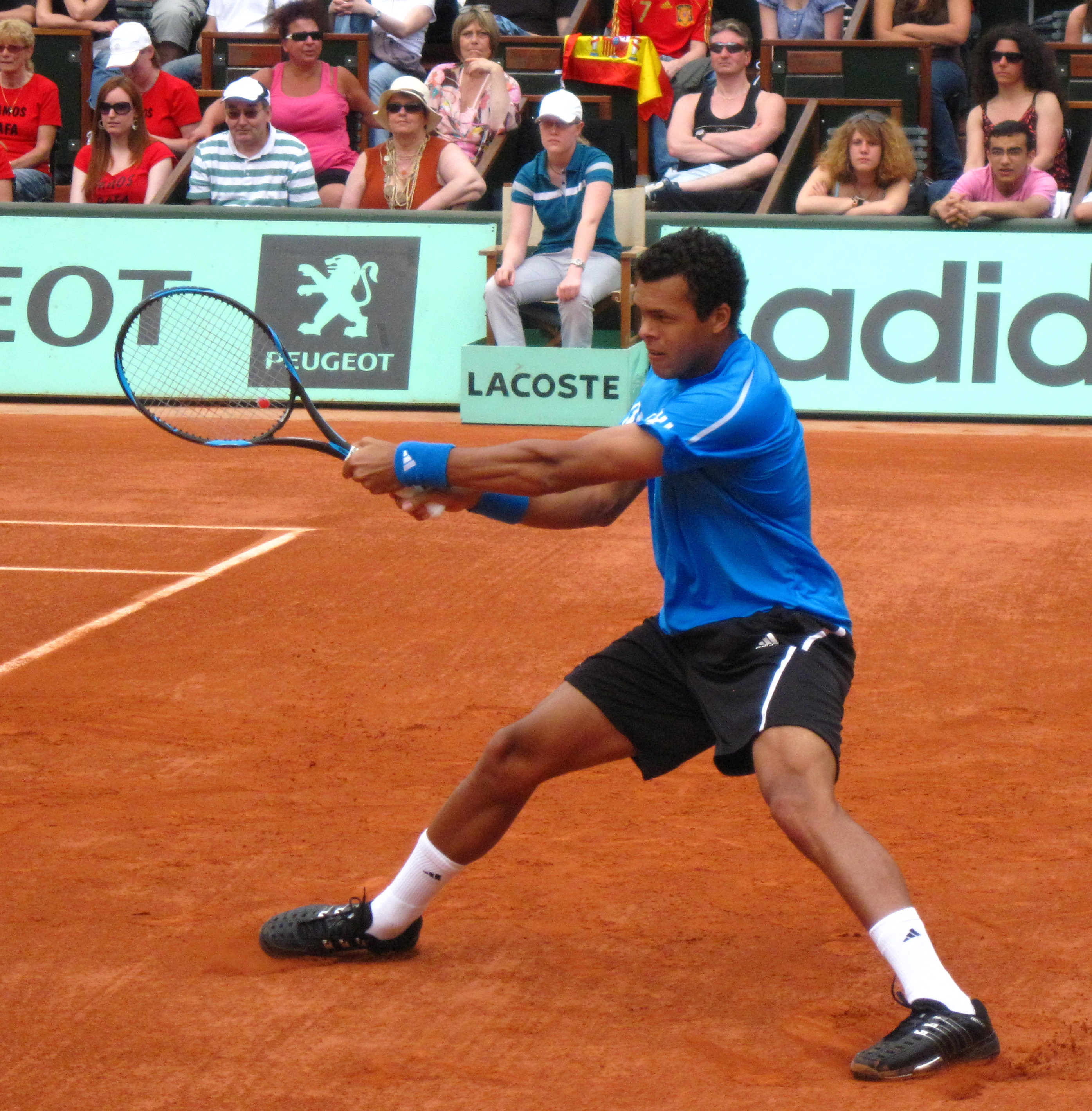 Jo-Wilfried Tsonga at 2009 Roland Garros, Paris, France